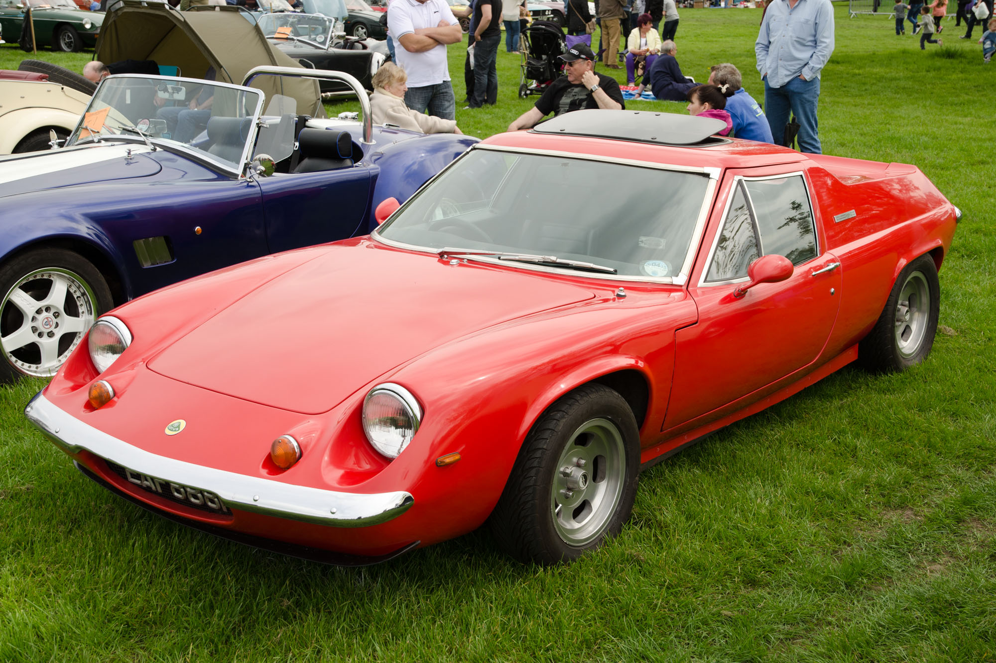 Catton Hall Classic Car Show 04/05/2014